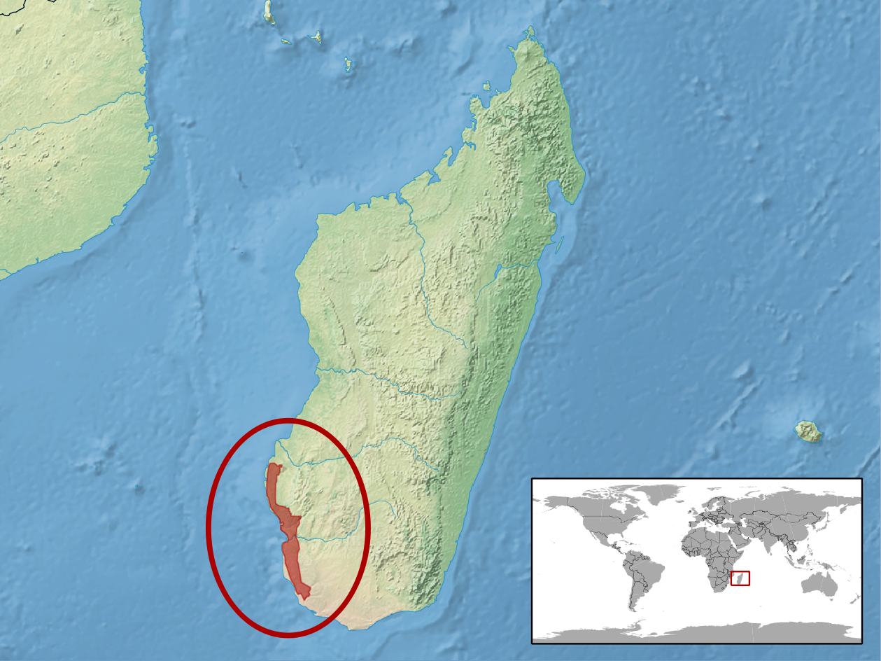 geographic distribution of Pygomeles braconnieri